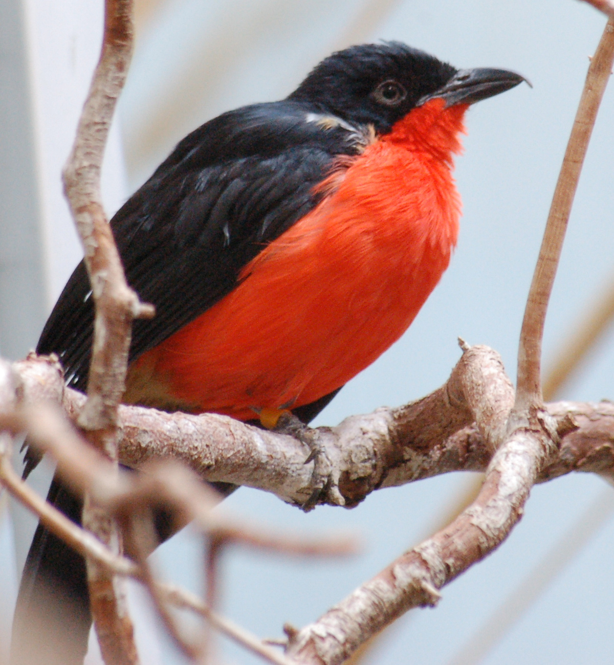 A photograph of Black-headed Gonoleken (Laniarius erythrogaster en ). Photo taken at the National Aviary.